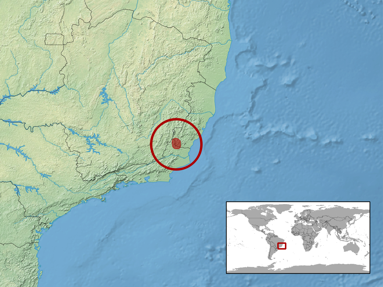 geographic distribution of Amphisbaena lumbricalis (Native: Brazil)